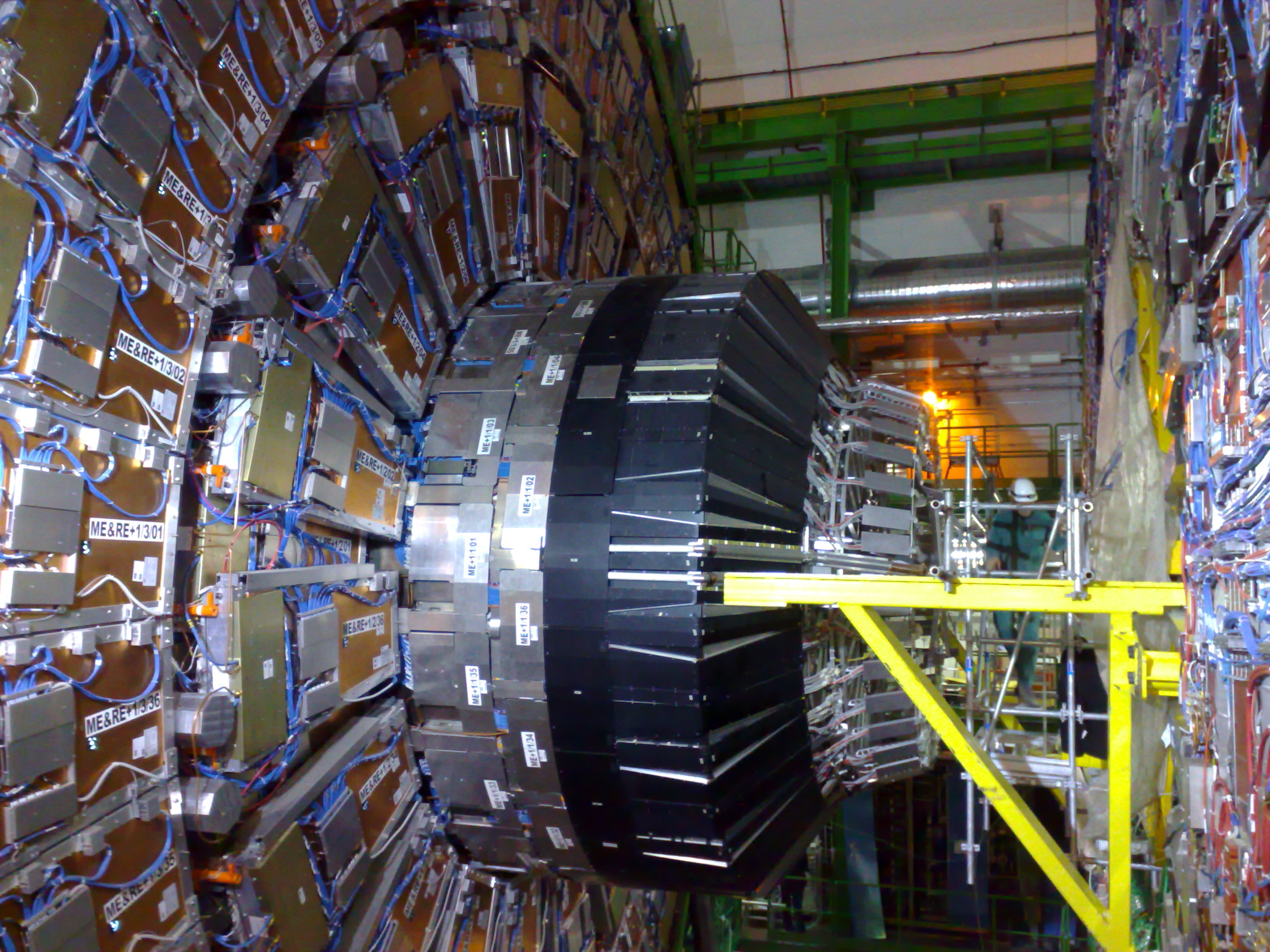 Compact Muon Solenoid at Large Hadron Collider.CMS experiment (100 meters underground) @ CERN